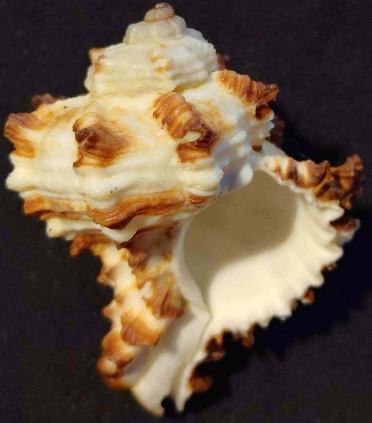 Hexaplex Cichoreum Depressospinosus Front